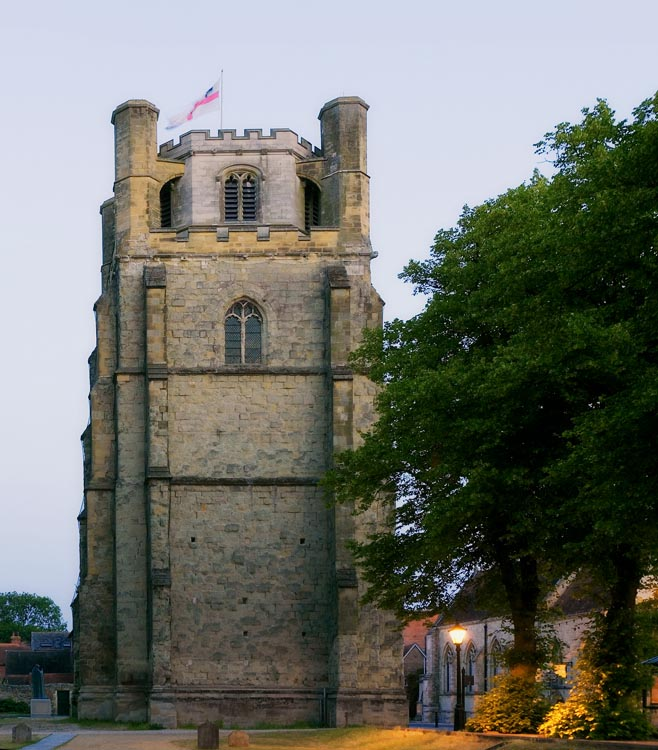 Author: Antony McCallum Bell Tower at Chichester Cathedral c.1410-1440